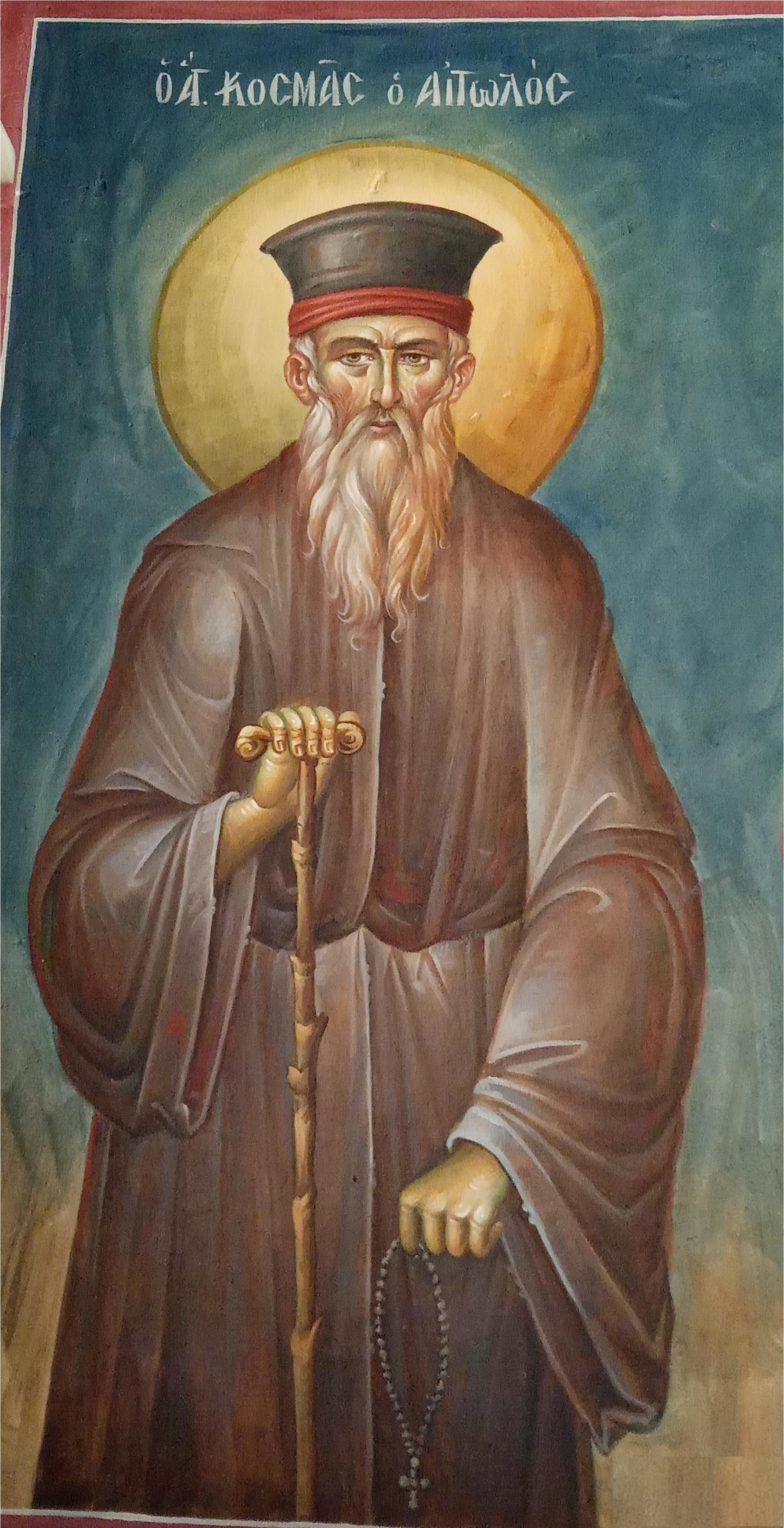 St. Cosmas of Aetolia, Equal to the Apostles. Mural inside a Greek Orthodox church.